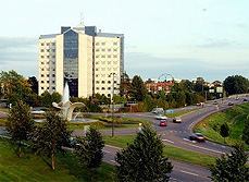 View over Borlänge, Sweden. Released into public domain. Acting as a placeholder until at better photo is uploaded.